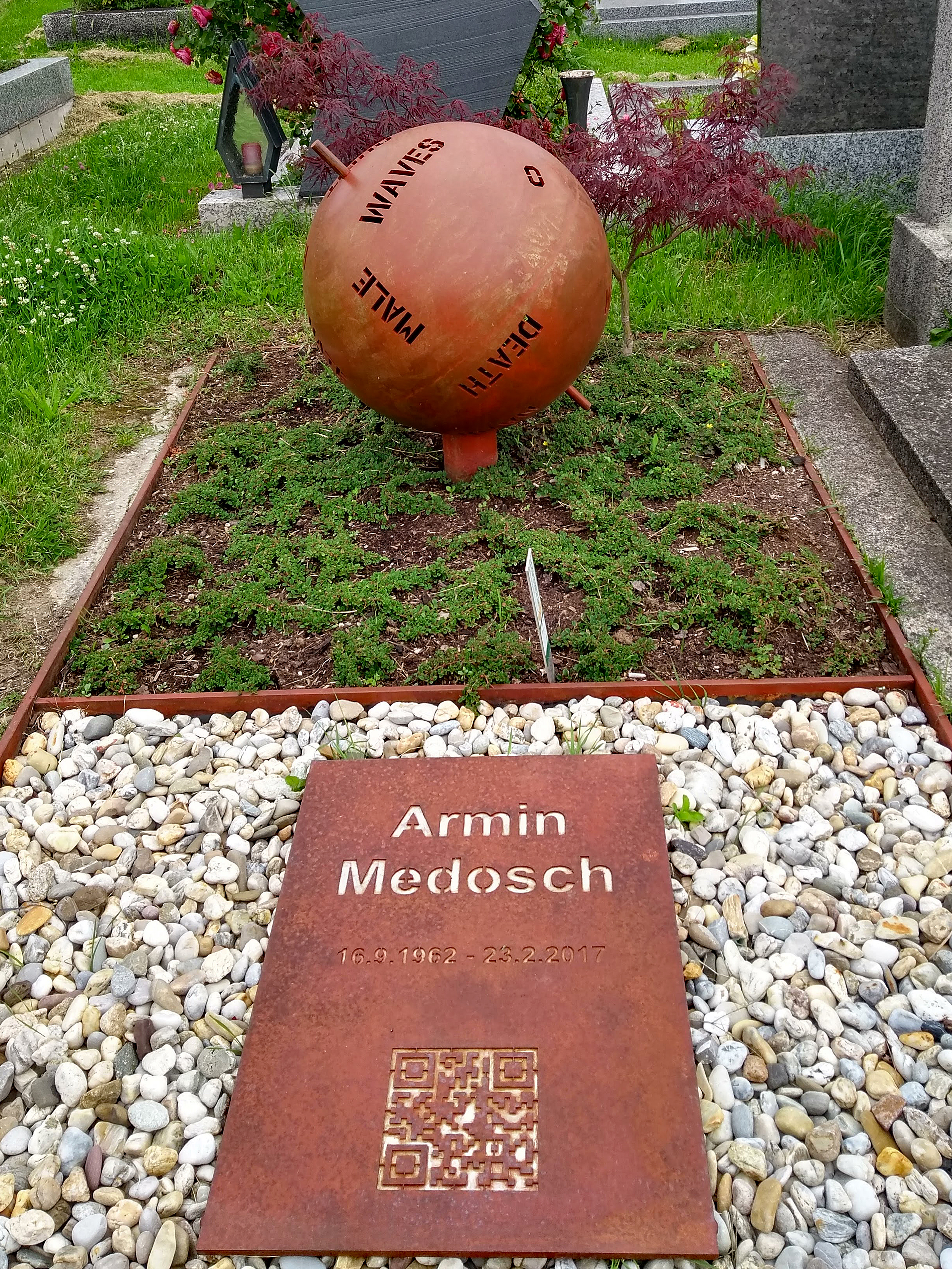 Grave of the artist, curator and journalist Armin Medosch (1962–2017). Baumgarten cemetery, 1140 Vienna (group R, number 1640)